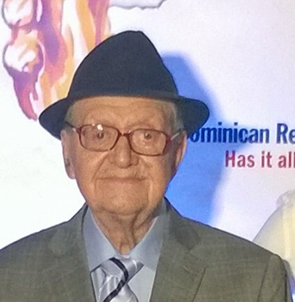 Image taken during the South Florida Dominican Jazz festival October 15, 2016